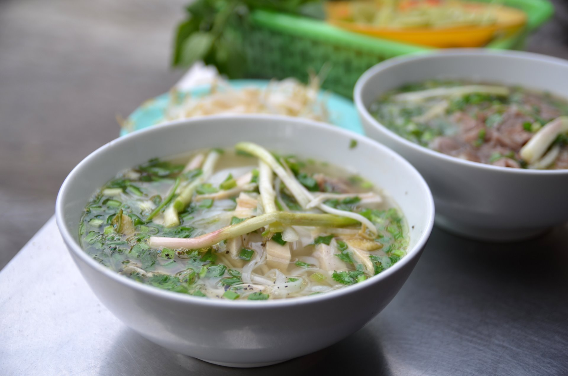 Phở with pork in Ho Chi Minh City.